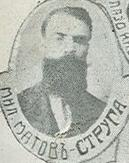 Portrait of IMARO member Milan Matov from Struga